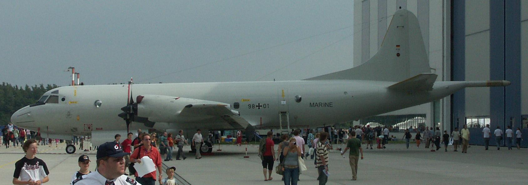 A Lockheed P-3C Orion of the Deutsche Marine (German Navy). This was the first aircraft obtained from the Netherlands in 2006. It had the U.S. Navy BuNo 161371 and the Koninklijke Marine (Royal Netherlands Navy) serial 303. Originally it was given the German serial 98+01, later changed to 60+03. It is today in service with Marinefliegergeschwader 3 (MFG 3) (Naval Air Wing 3 Graf Zeppelin) at Nordholz, Lower Saxony, Germany.